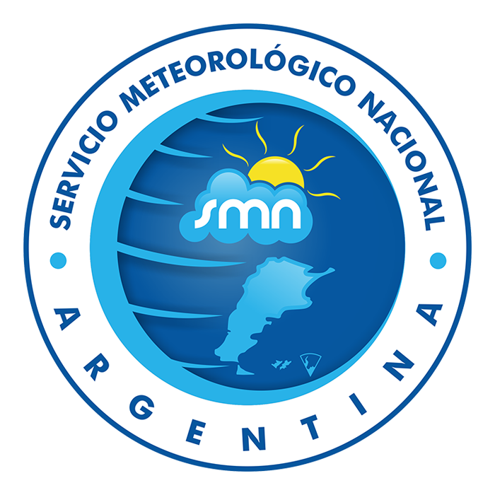 Logo of National Meteorological Service of Argentina, an organism dependent on the Ministery of Defense.